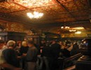 The Lisbon Pub, 35 Victoria Street, Liverpool Ornate ceiling